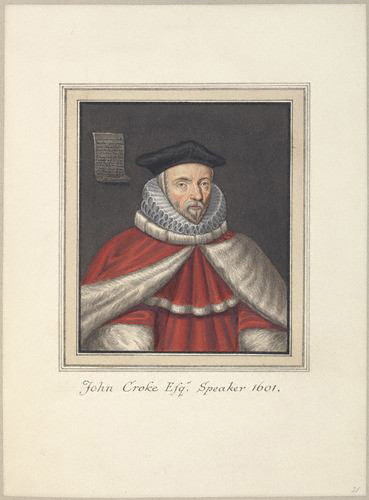 A portrait of Sir John Croke, by Thomas Athow. This was painted in the early 19th century, and Croke lived from 1553x6–1620. Croke was the Speaker of the English House of Commons in 1601.